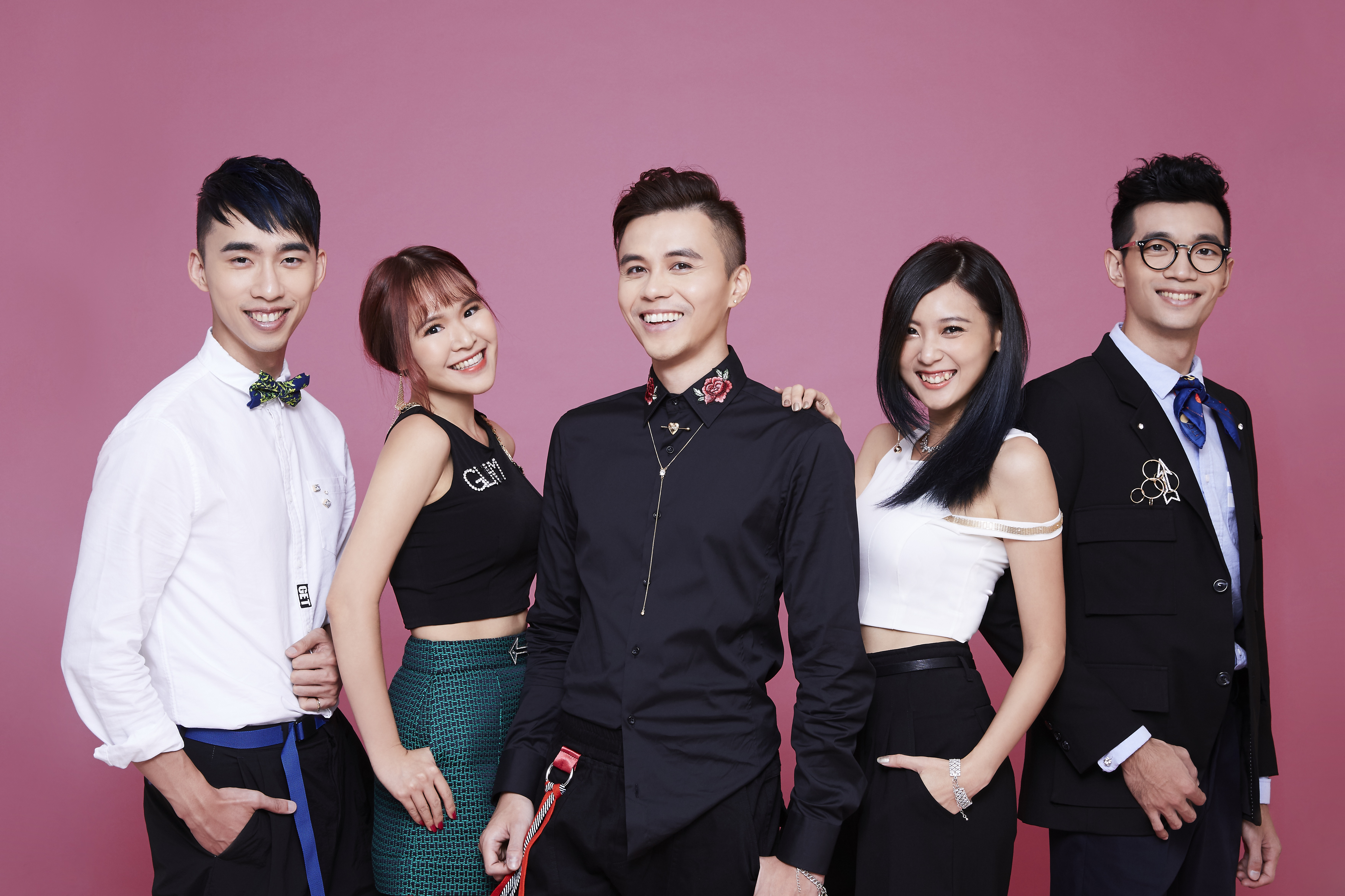 Sirens model card